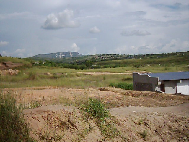 Mont Mangengenge mount in Nsele commune, Kinshasa